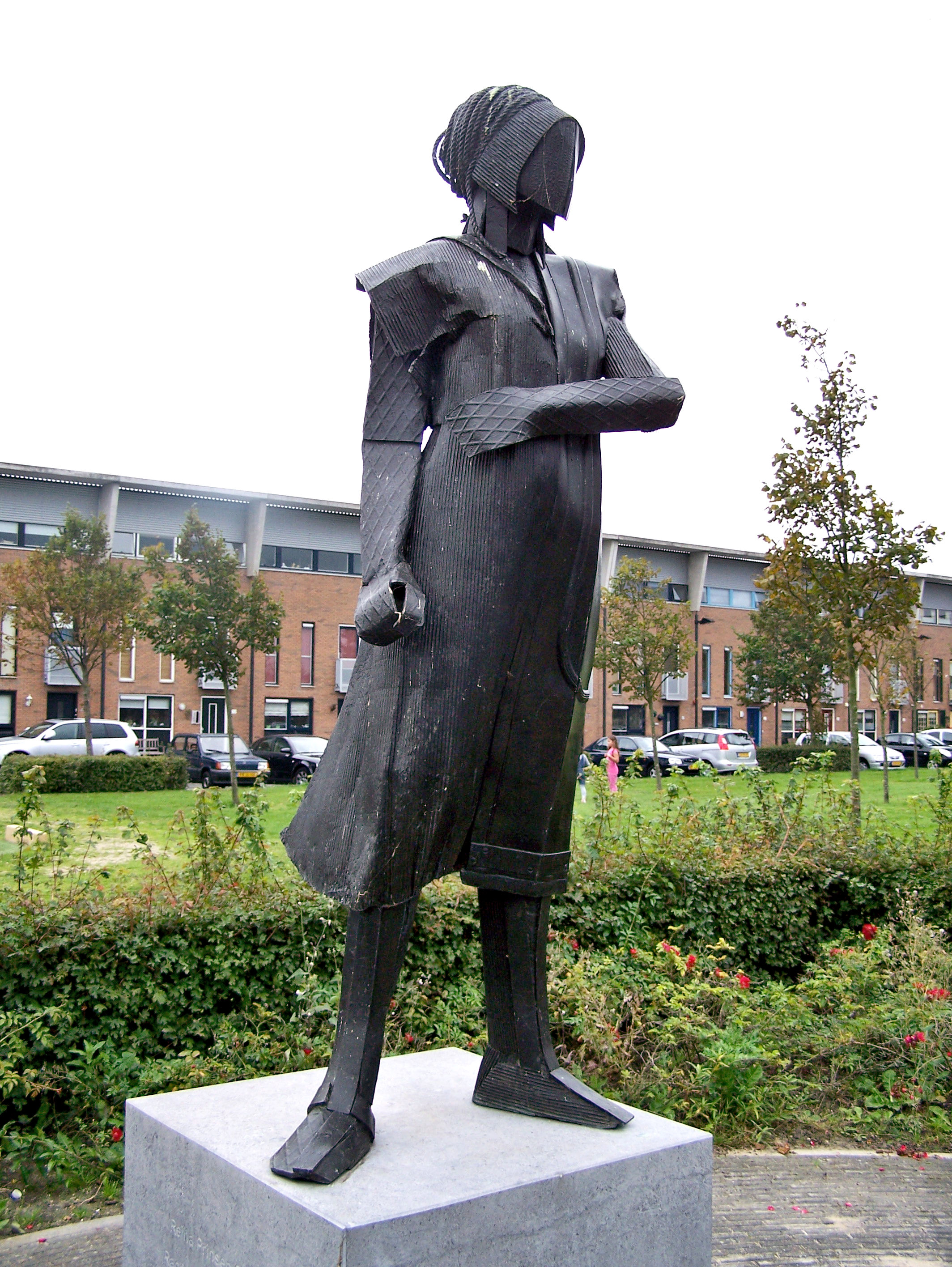 World War II Memorial "Vrouwen uit het verzet" (Women from the resistance) made by Elly Baltus in 1999. At the base there's a poem from Jan Campert. It is placed at the Oosttangent/Aletta Jacobstuin in Heerhugowaard.